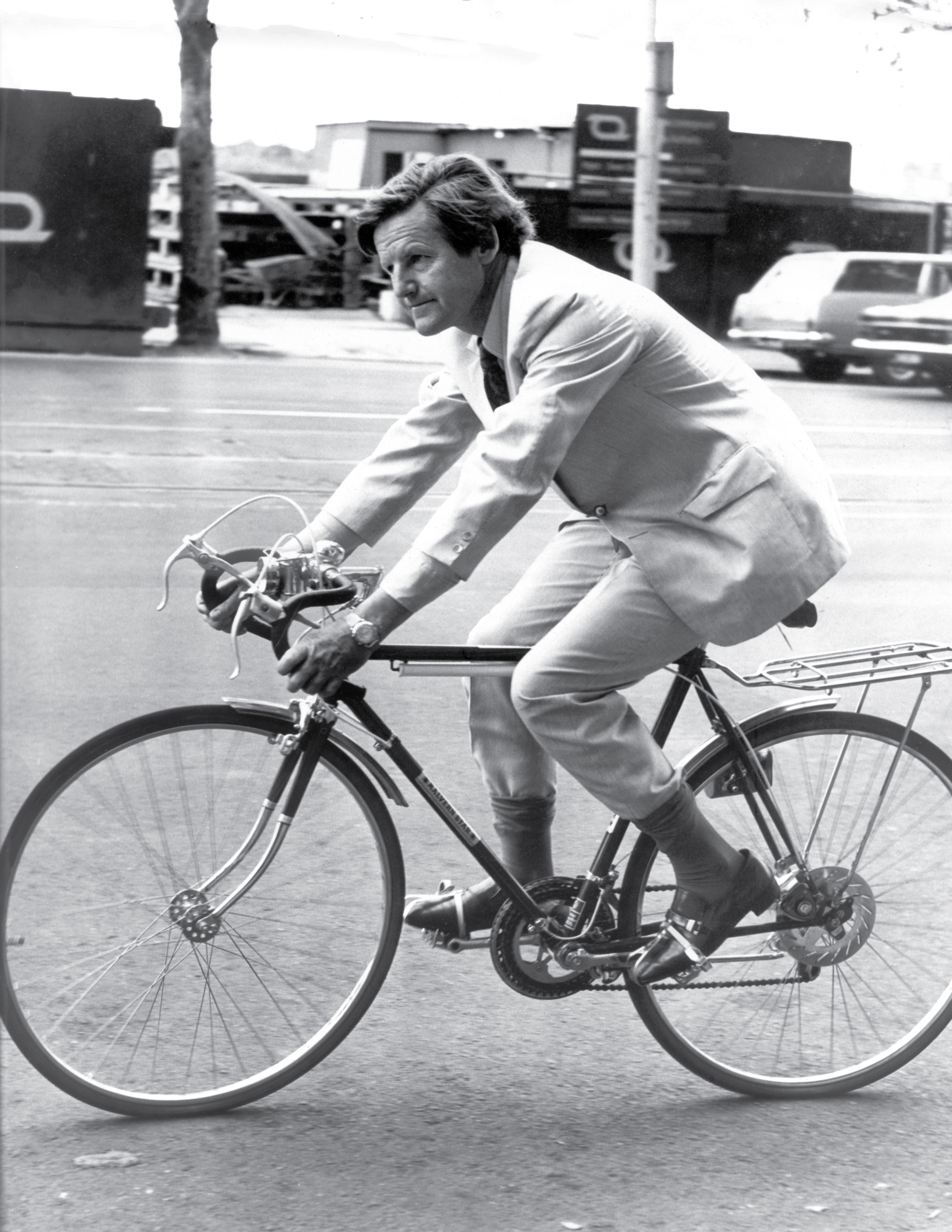 Keith Dunstan on his bicycle in Flinders Street, Melbourne.